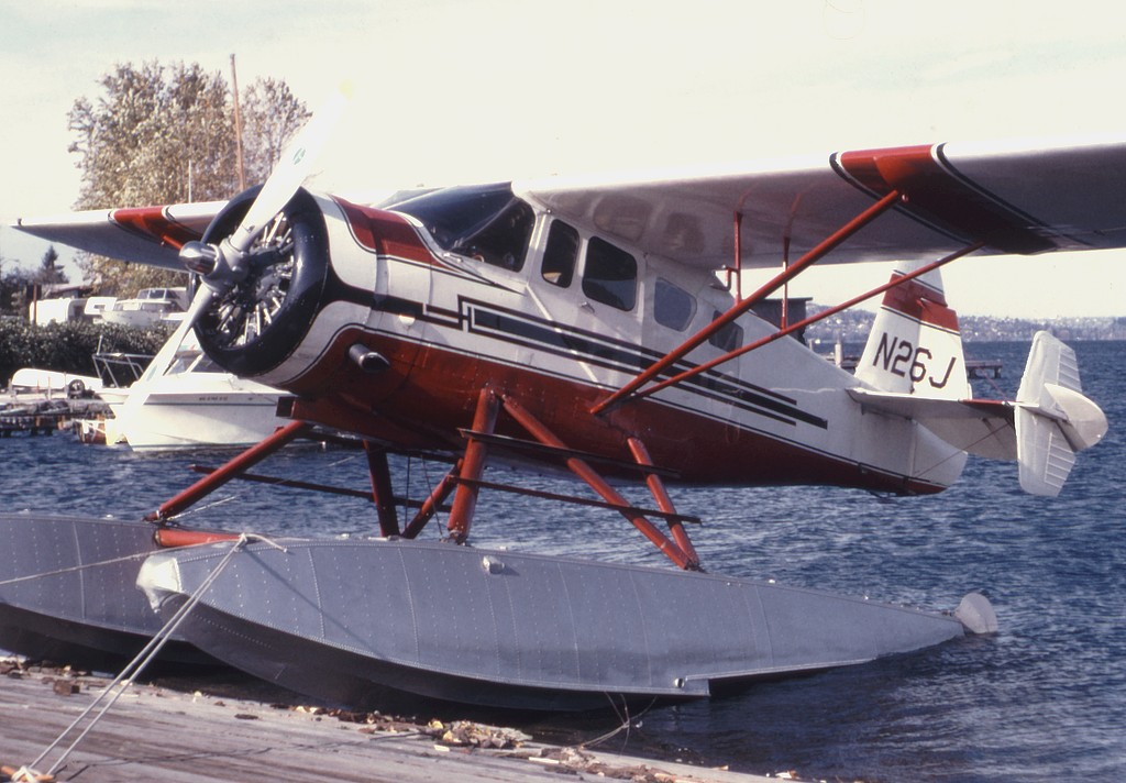 Howard DGA-15P floatplane N26J with added finlets at Renton, Seattle